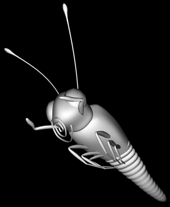 Diffuse term rendered for an insect model.